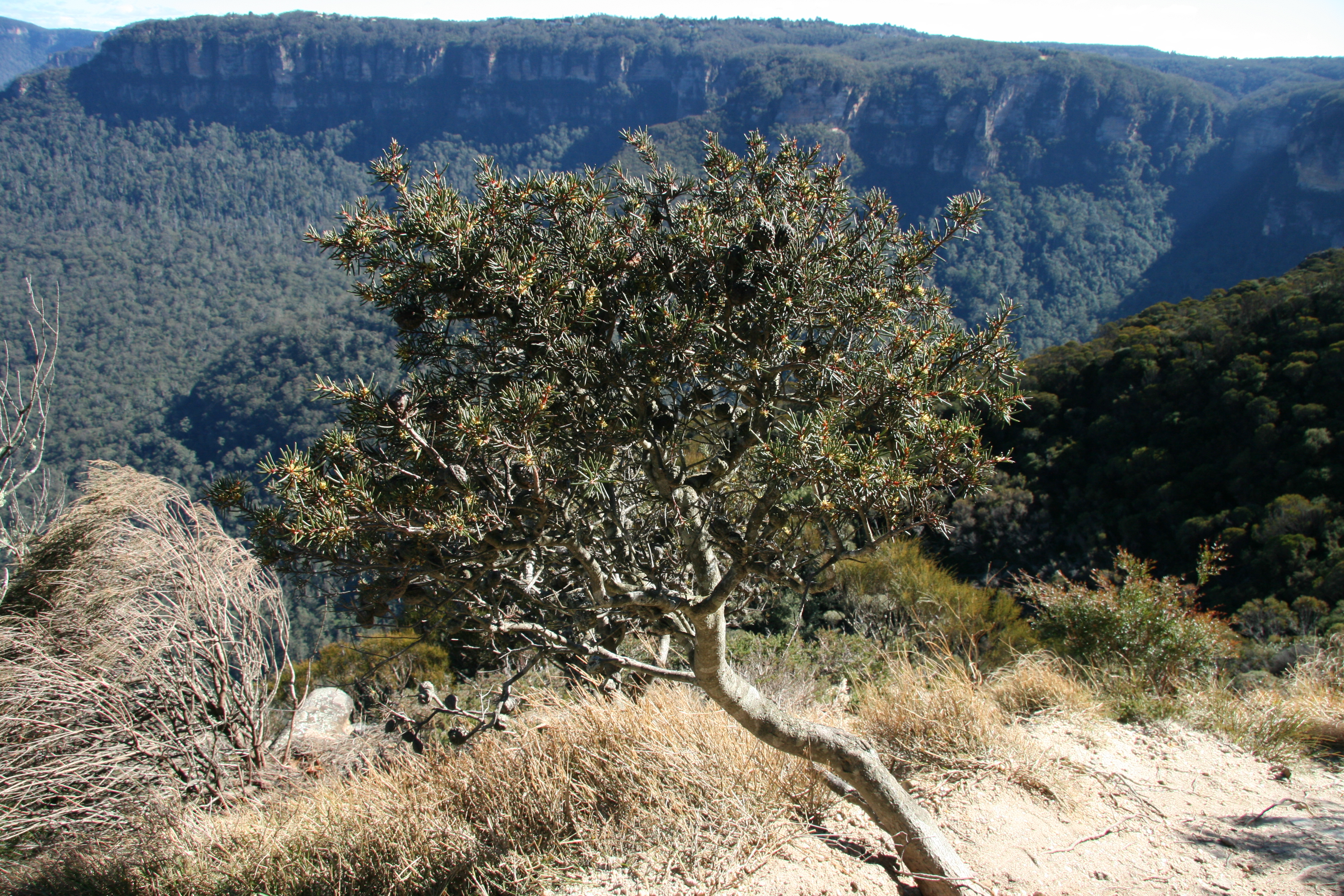 Hakea pachyphylla (habit), Kings Tableland Blue Mtns